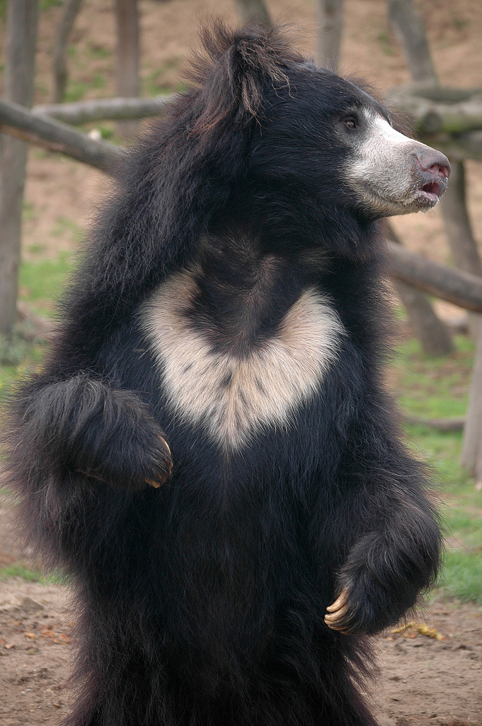 Sloth bear